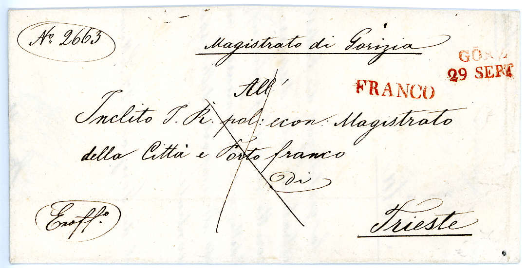 Folded letter (32x42 cm), red linear cancelled at GÖRZ on 1847-09-27, sent to Citta e Porto franco di TRIESTE. Italian text by Magistrato di Gorizia.